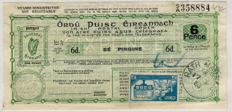 1927 issue Postal order of Ireland used in 1938 from Rathmines with additional Irish Constitution 3d adhesive stamps affixed making a total value of 9d - the country is now identified by the inscription 'SAORSTÁT ÉIREANN'.